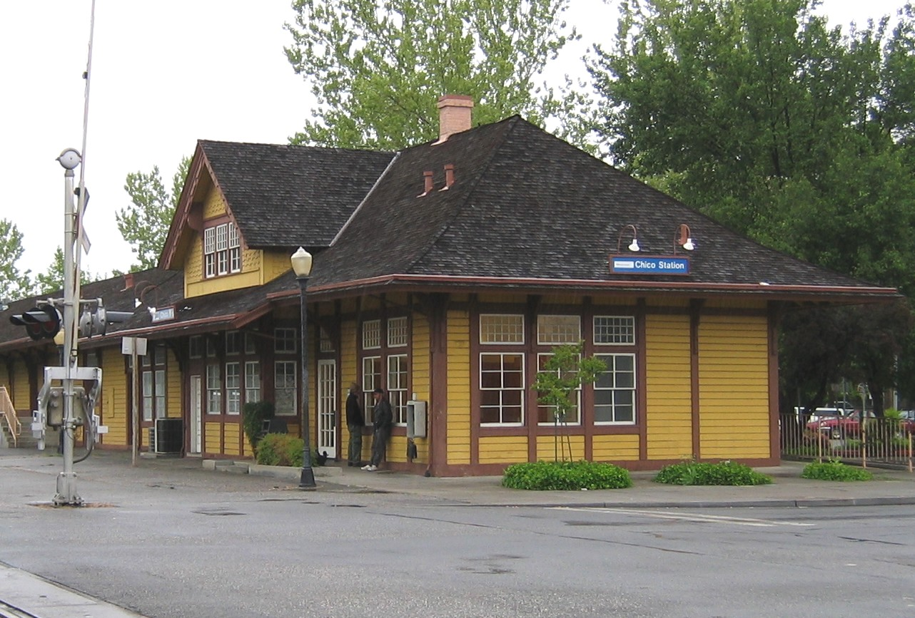 Chico station in April 2007